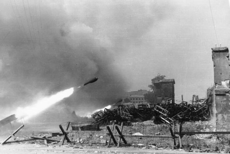 Warsaw Uprising: Firing of 32-35 cm ammunition into Wurfgerät 42 "Nebelwerfer". Photo of 201st Stellungswerfer Regiment bombing Old Town and North Śródmieście district from Żelazna and Żytnia street intersection.